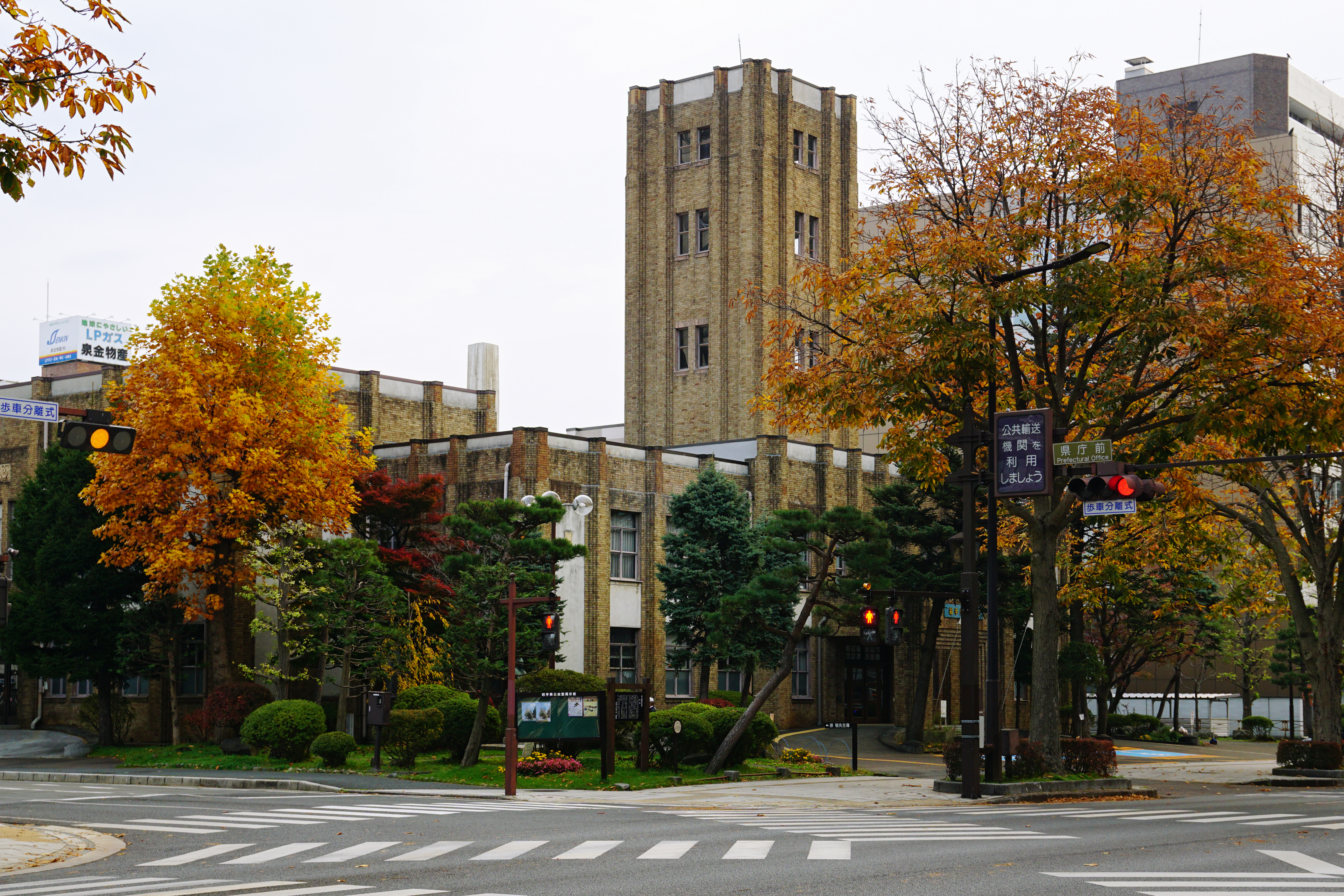 Iwate_Prefecture_Public_Hall in Morioka, Iwate prefecture, Japan